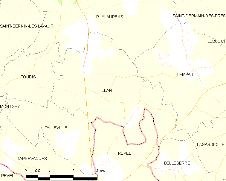 Map of French municipality Blan